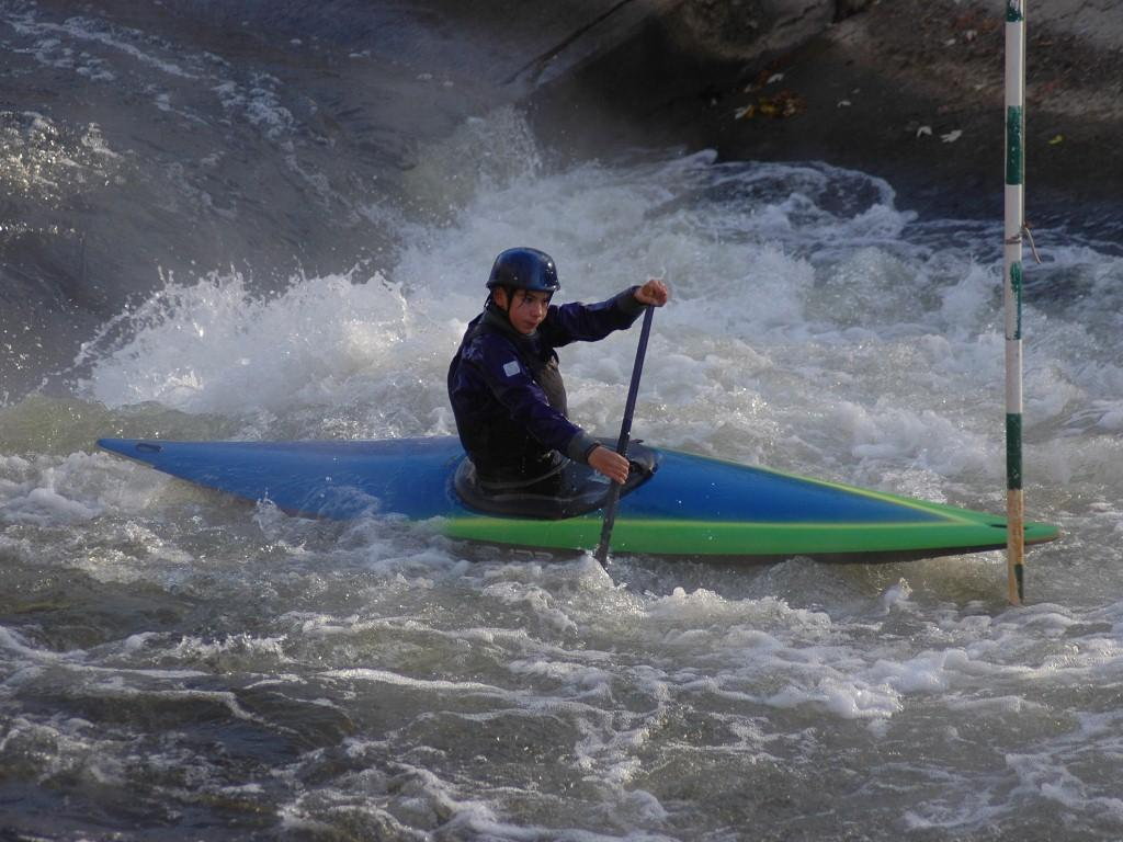 Slalom practice at Dickerson Whitewater Course, in a C1, decked canoe, with a single paddler using a single-blade paddle.